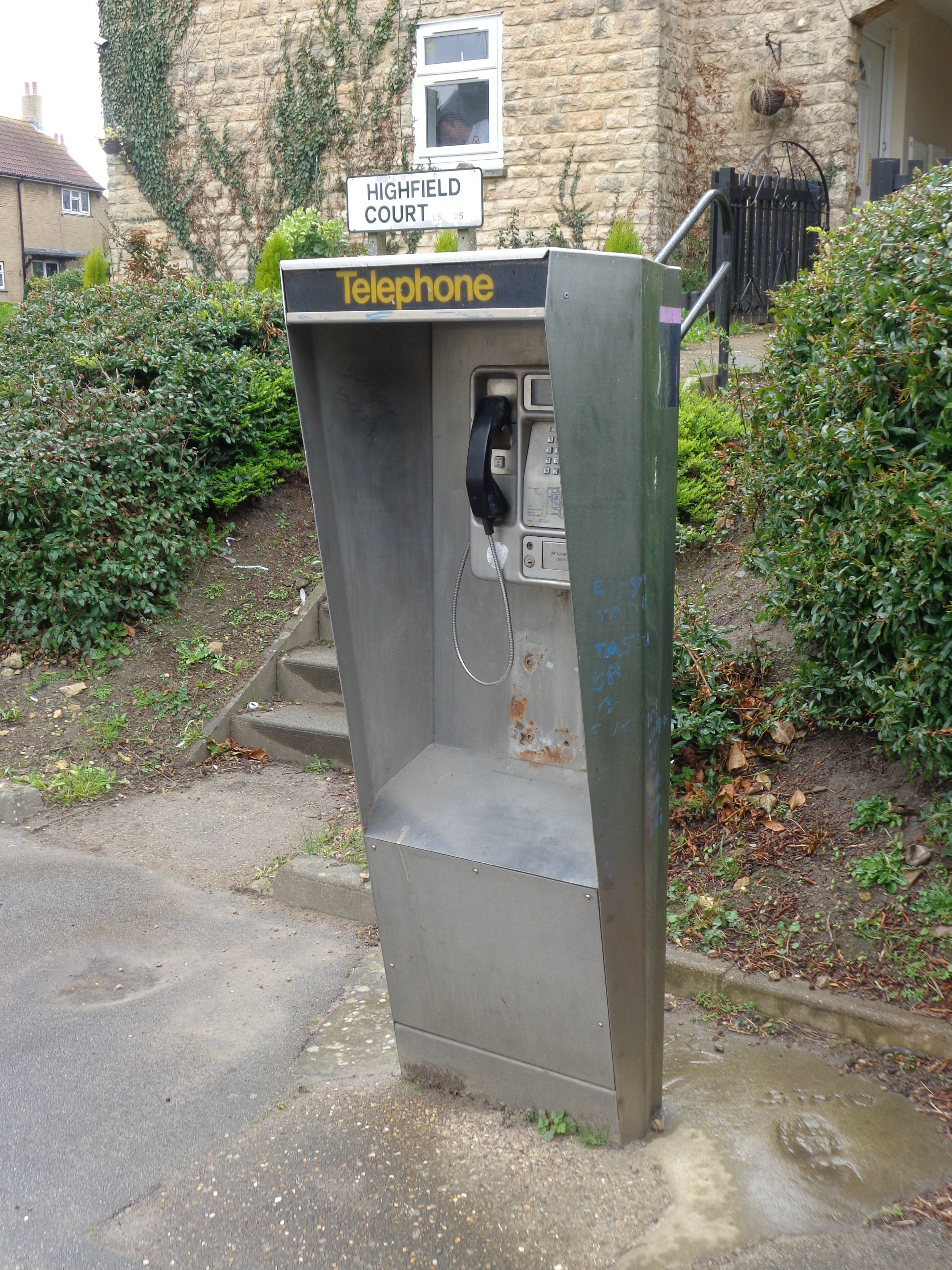 Telephone kiosk, Main Street, Aberford, Leeds, West Yorkshire. Taken on the afternoon of Saturday the 22nd of March 2014.